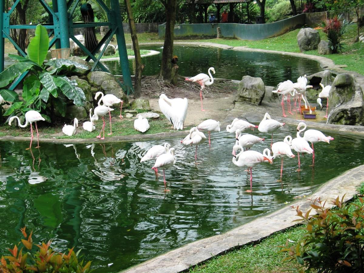 flamingo pod